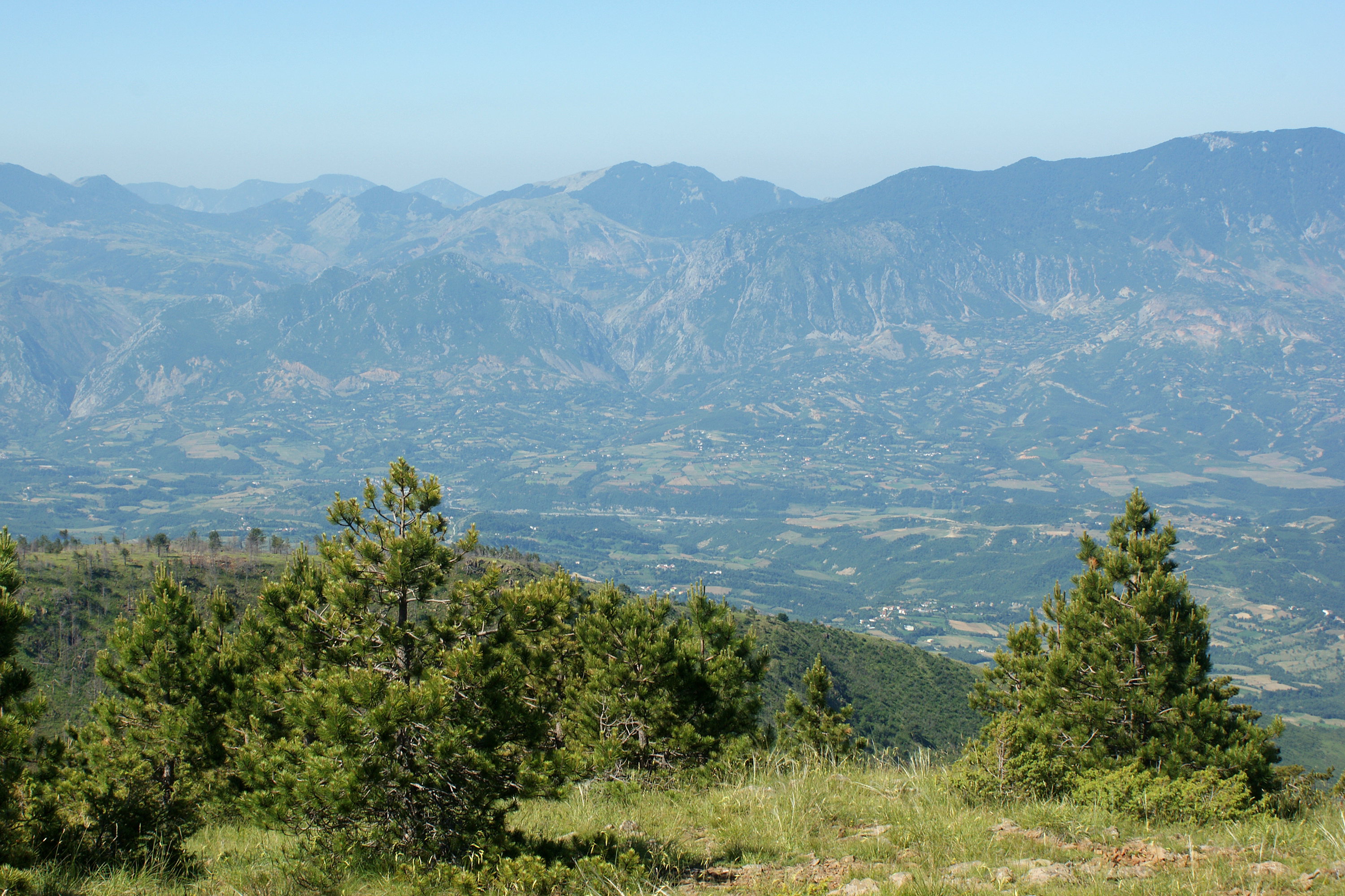 View accross the southern part of the Mat valley into the Skanderbeg Mountains